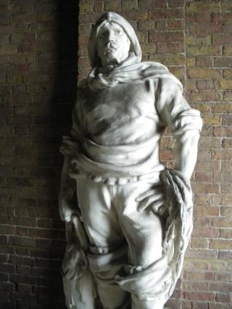 Alfred Turner's sculpture in Fishmongers' Hall